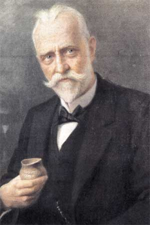 Portrait of the 19thC archaeologist Gustaf Kossinna